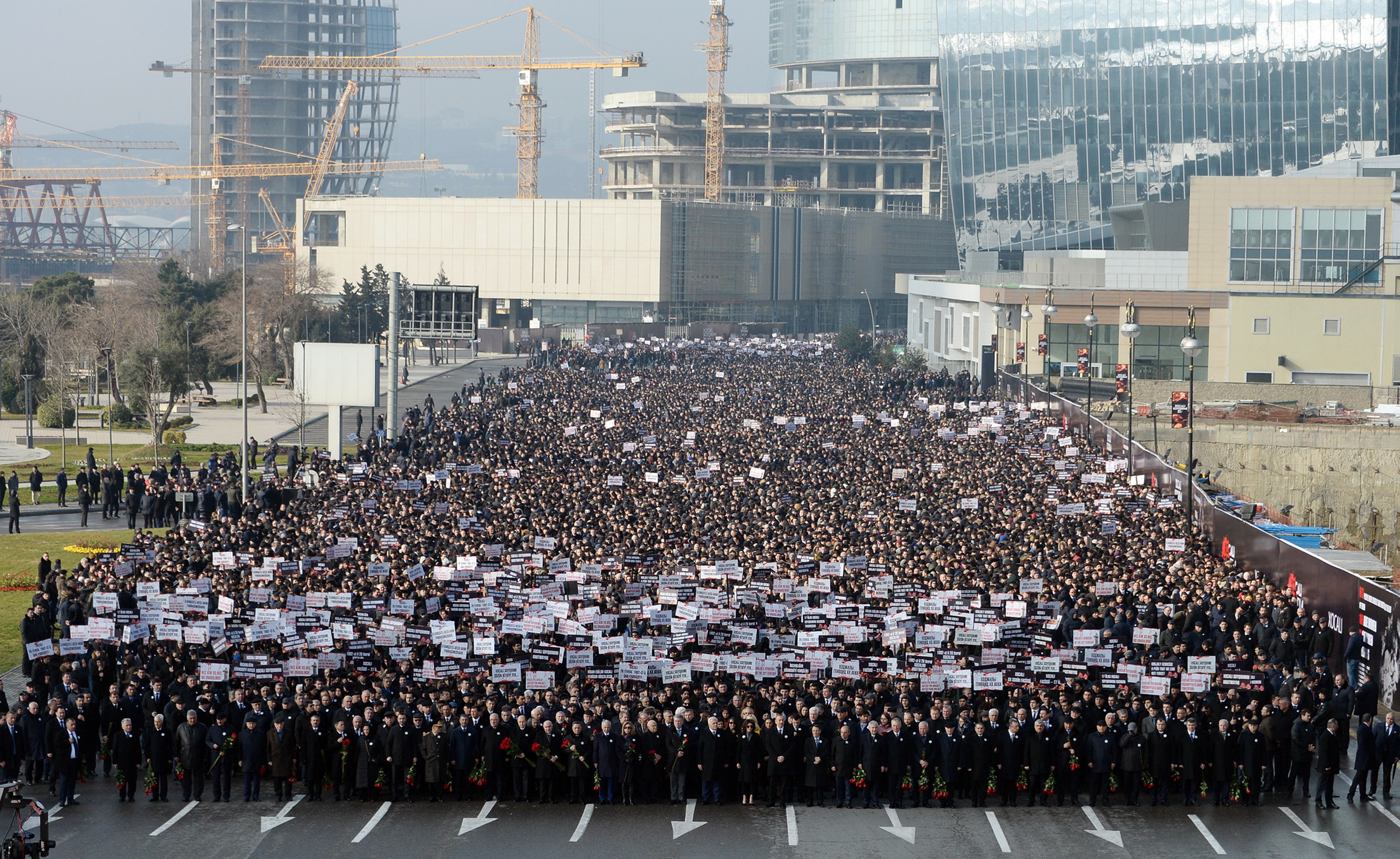 Ilham Aliyev attended ceremony to commemorate Khojaly genocide victims